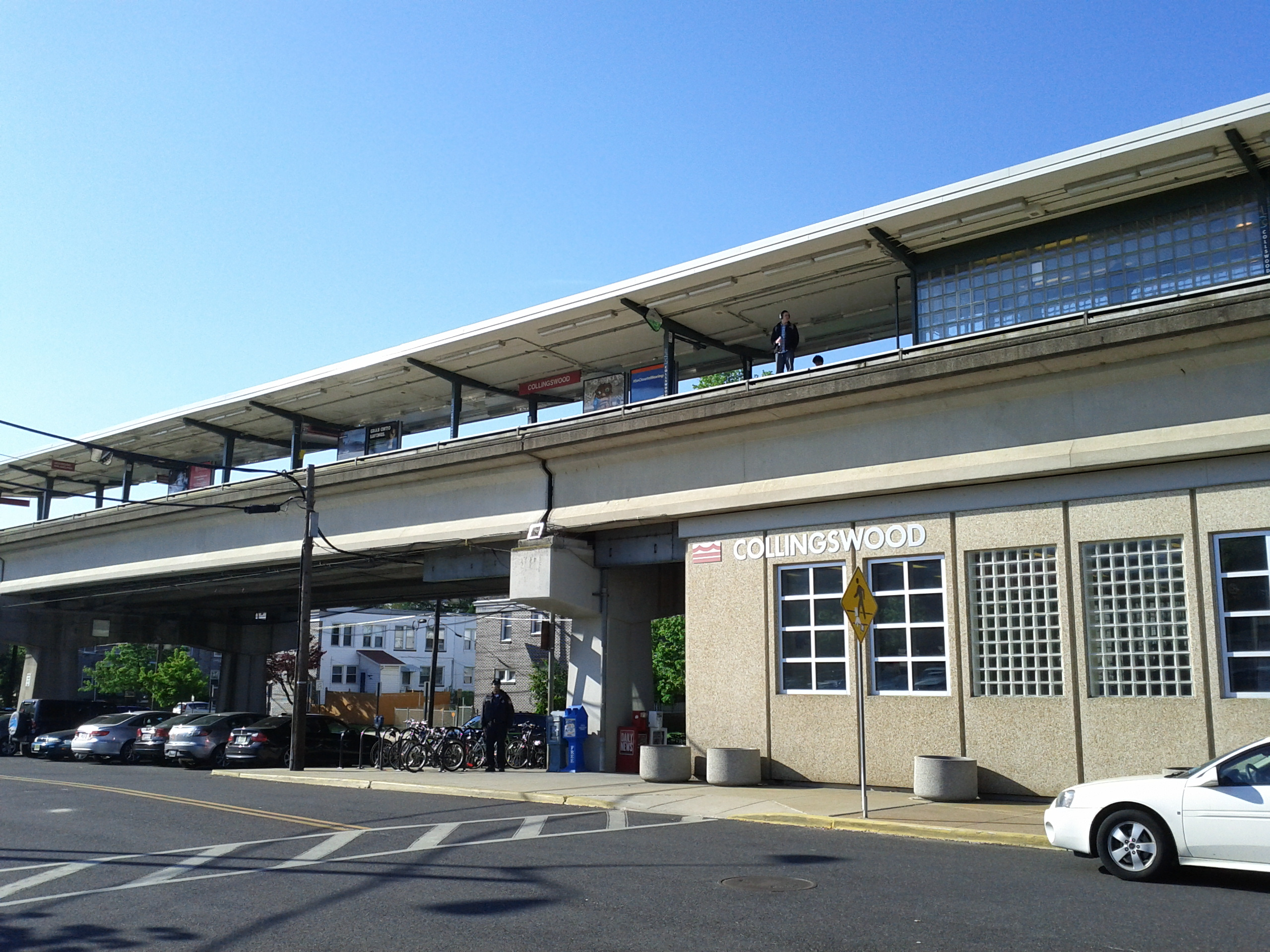 Early-morning picture of the Collingswood PATCO High Speed Line station in Collingswood, New Jersey